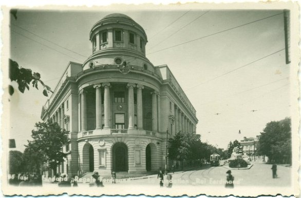 Iasi (Jassy), Romania, Copou Blvd.